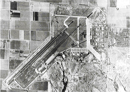 Luke AFB, Arizona, 1979